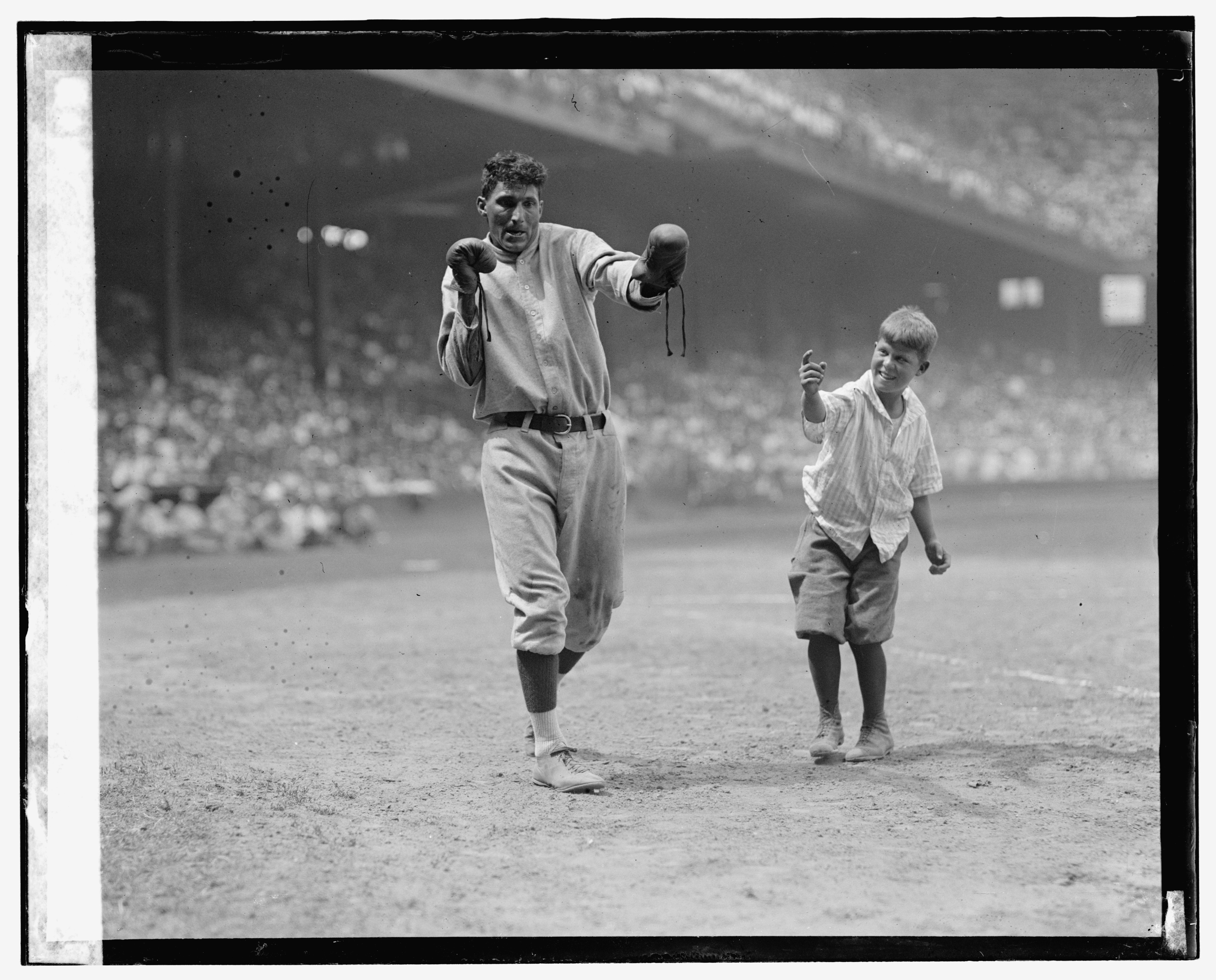 Title: Al Schacht, Wash. Abstract/medium: 1 negative : glass ; 4 x 5 in. or smaller